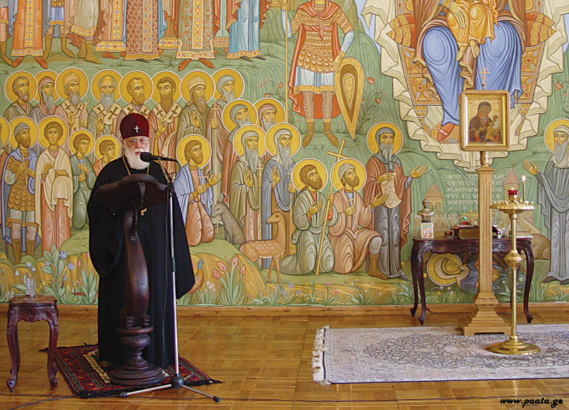 Ilia II, the current Catholicos-Patriarch of All Georgia.